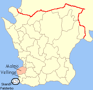 The Skanör-Falsterbo peninsula in Skåne in Sweden. Also showing Velling Municipality and Malmö Municipality (Malmö stad).